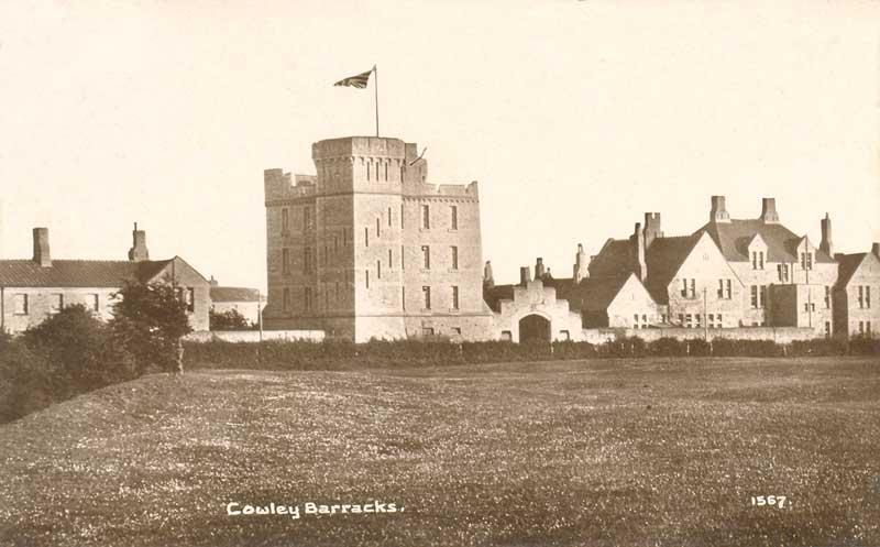 Postcard showing Cowley Barracks, Oxford